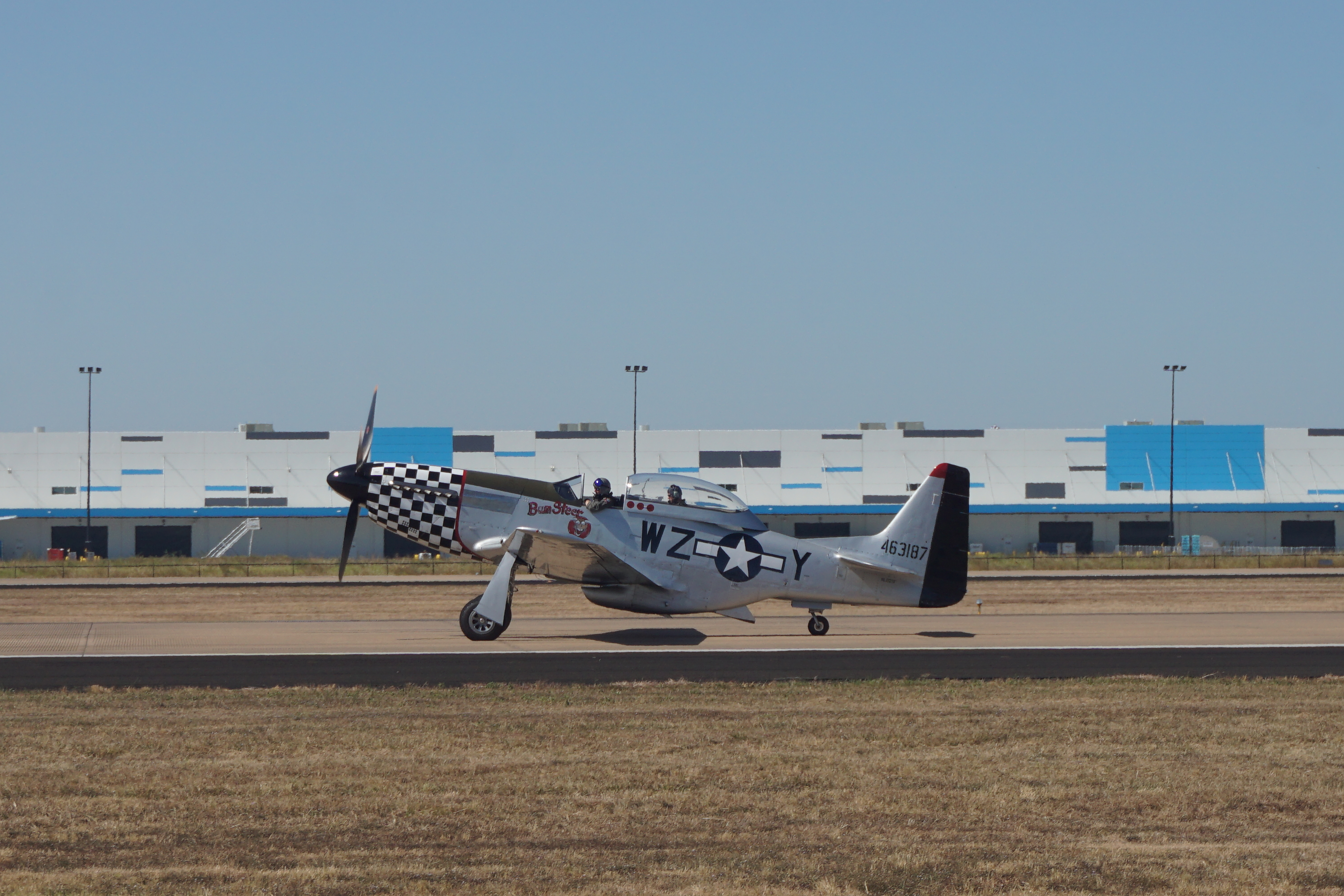 A North American P-51 Mustang at the 2019 Fort Worth Alliance Air Show at Fort Worth Alliance Airport in Fort Worth, Texas (United States).